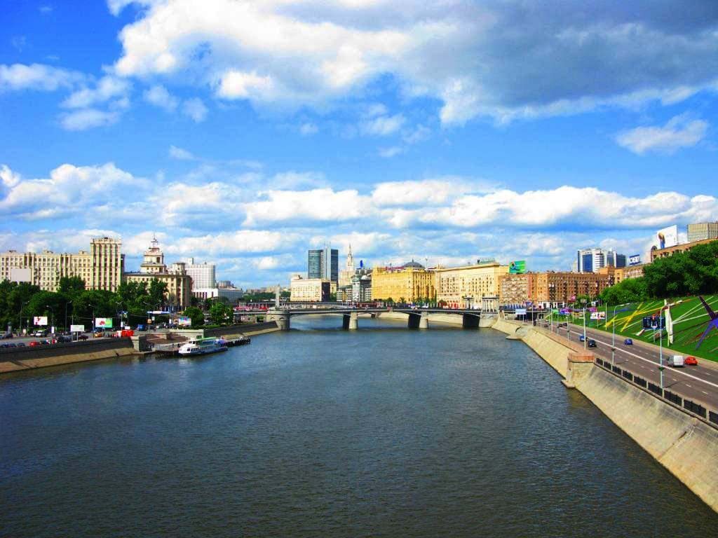 Moscow, Russia.